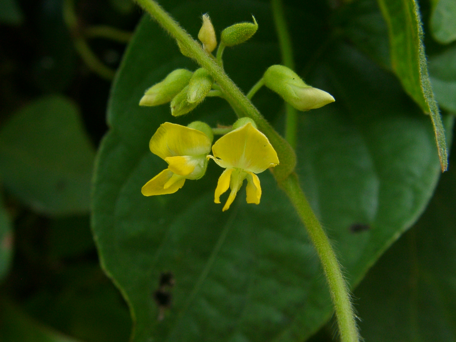 Rhynchosia acuminatifolia 's flower. at Odawara-city, Japan.